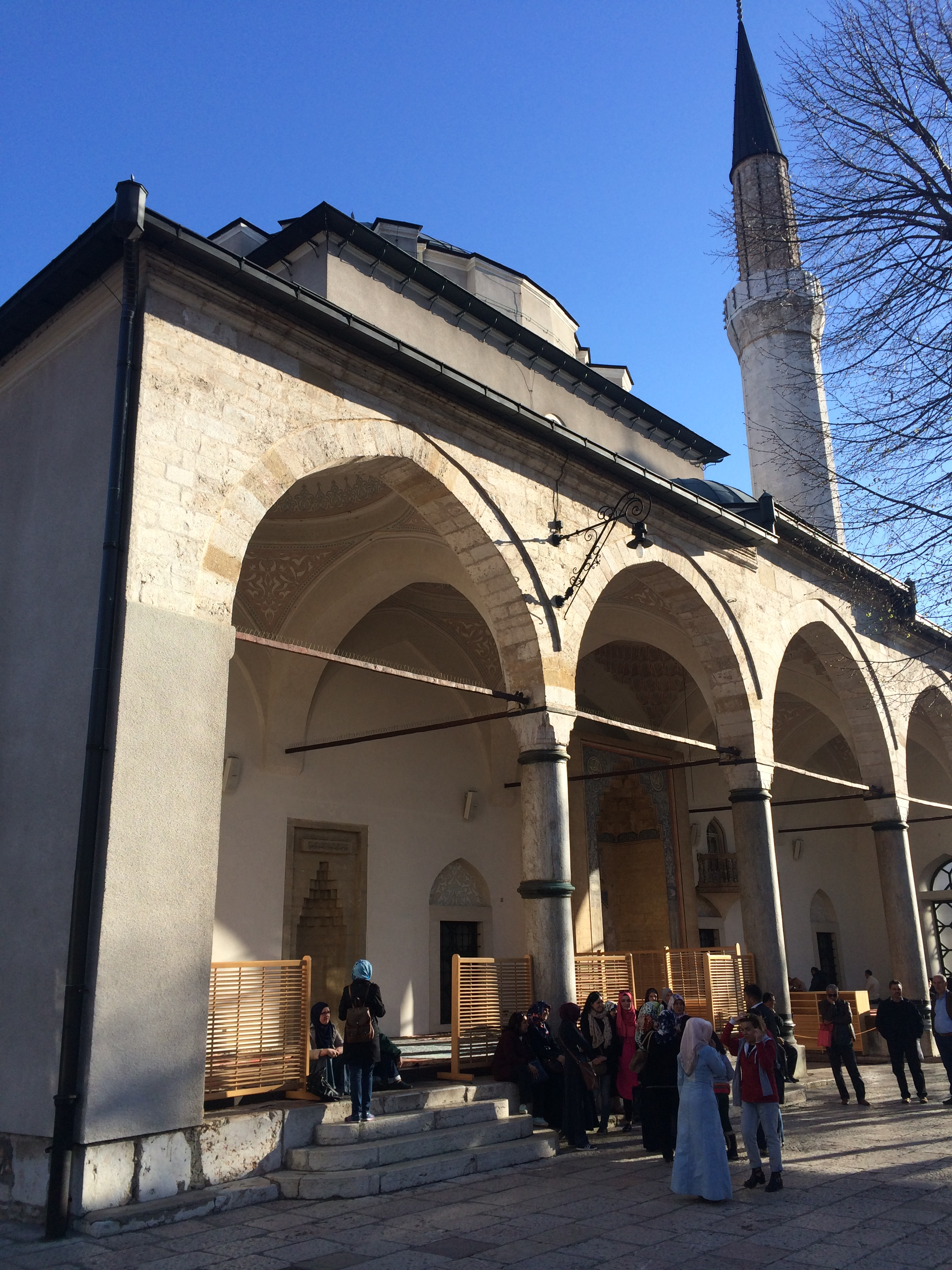 The Gazi Husrev Bey Mosque is part of the donations (waqf) of this governor, in Old Sarajevo, Bosnia.